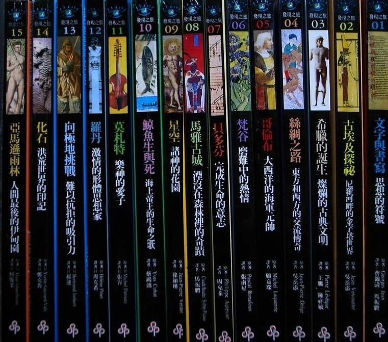 “Voyage D’exploration” series book spines, published by China Times Publishing, the Taiwanese edition of “Découvertes Gallimard”. List of the corresponding U.S. edition published by Harry N. Abrams, in the “Abrams Discoveries” series:Writing: The Story of Alphabets and Scripts by Georges Jean;The Search for Ancient Egypt by Jean Vercoutter;The Birth of Greece by Pierre Lévêque;Marco Polo et la Route de la Soie by Jean-Pierre Drège (not available in English);Christophe Colomb : Amiral de la mer Océane by Michel Lequenne (not available in English);Van Gogh: The Passionate Eye by Pascal Bonafoux;Beethoven: The Composer as Hero by Philippe A. Autexier;Lost Cities of the Maya by Claude-François Baudez & Sydney Picasso;The Sky: Mystery, Magic, and Myth by Jean-Pierre Verdet;Whales: Giants of the Seas and Oceans by Yves Cohat & Anne Collet;Mozart: From Child Prodigy to Tragic Hero by Michel Parouty;Rodin: The Hands of Genius by Hélène Pinet;North Pole, South Pole: Journeys to the Ends of the Earth by Bertrand Imbert;Fossils: Evidence of Vanished Worlds by Yvette Gayrard-Valy;The Amazon: Past, Present, and Future by Alain Gheerbrant. British